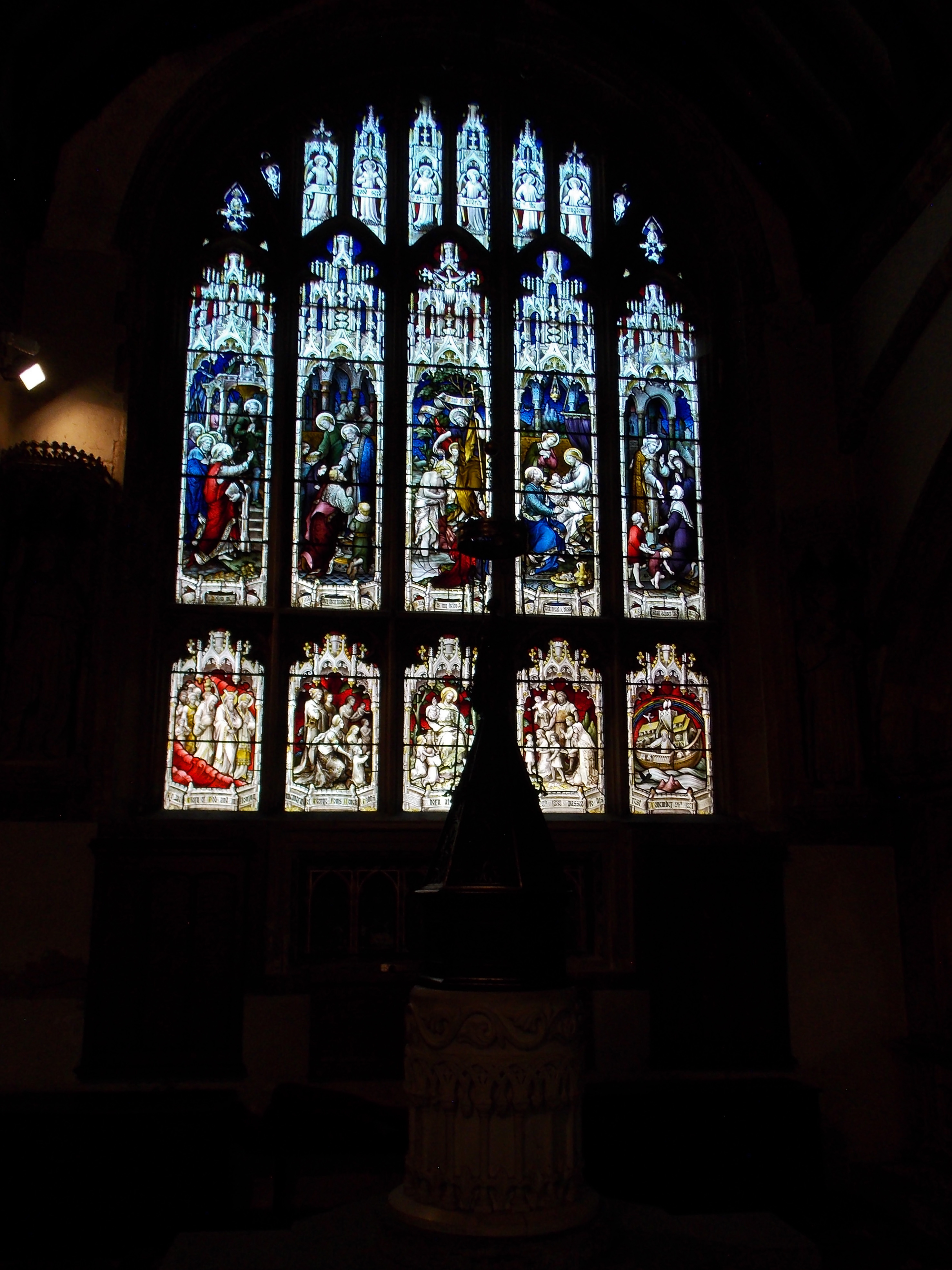 Church of St Helen, Abingdon, Oxfordshire. A stained glass behind the baptismal font.